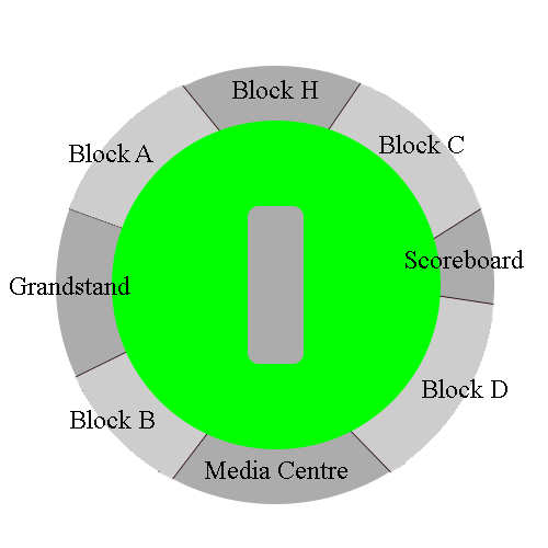 Map of R. Premadasa Stadium with names of the stands